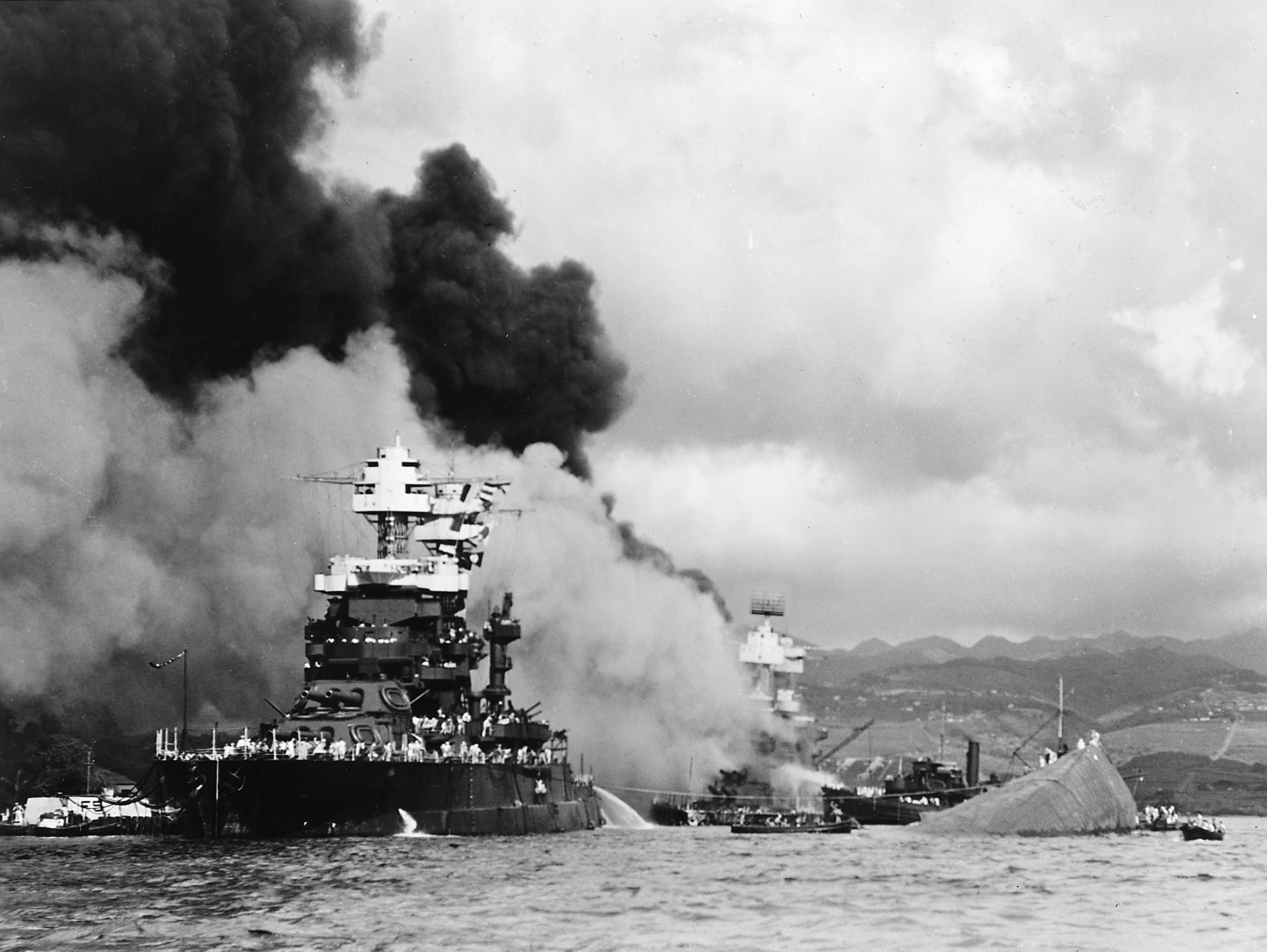 The U.S. Navy battleship USS Maryland (BB-46) alongside the capsized USS Oklahoma (BB-37) at Pearl Harbor. The USS West Virginia (BB-48) is burning in the background.